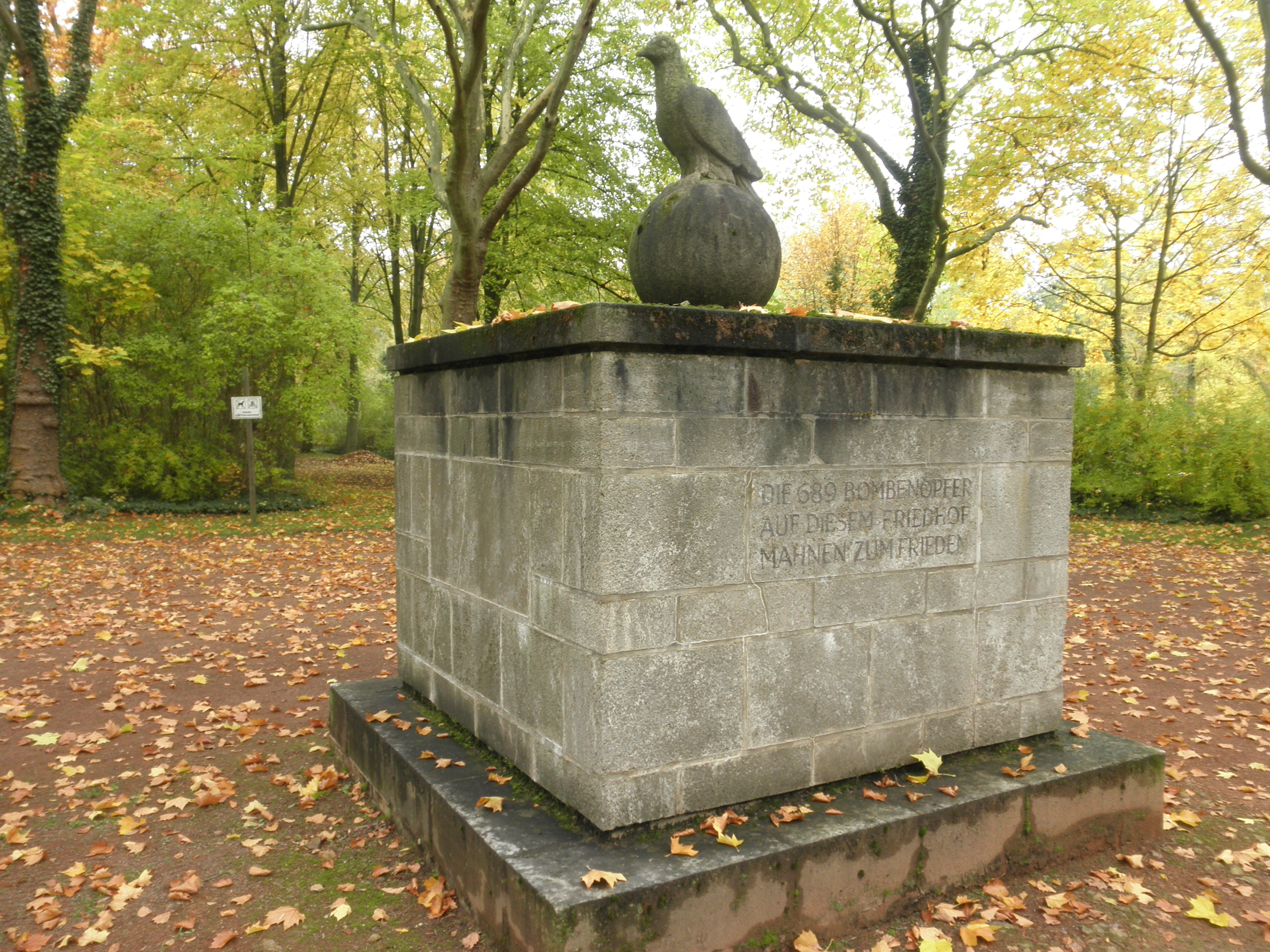 Monument for 689 Bombing Victims at Gertraudenfriedhof in Halle (Saale)